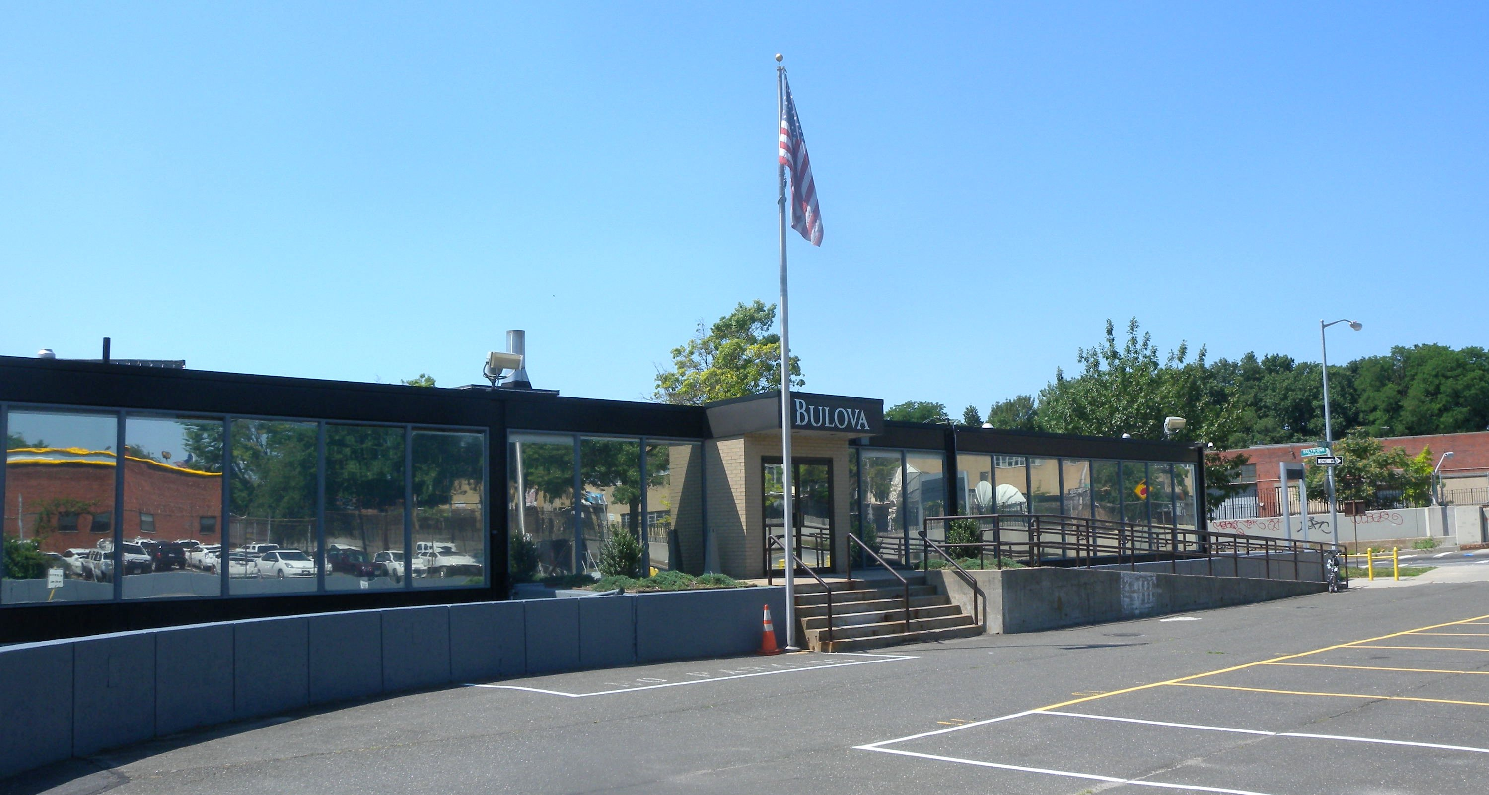 Looking west at Executive Offices on a sunny morning.